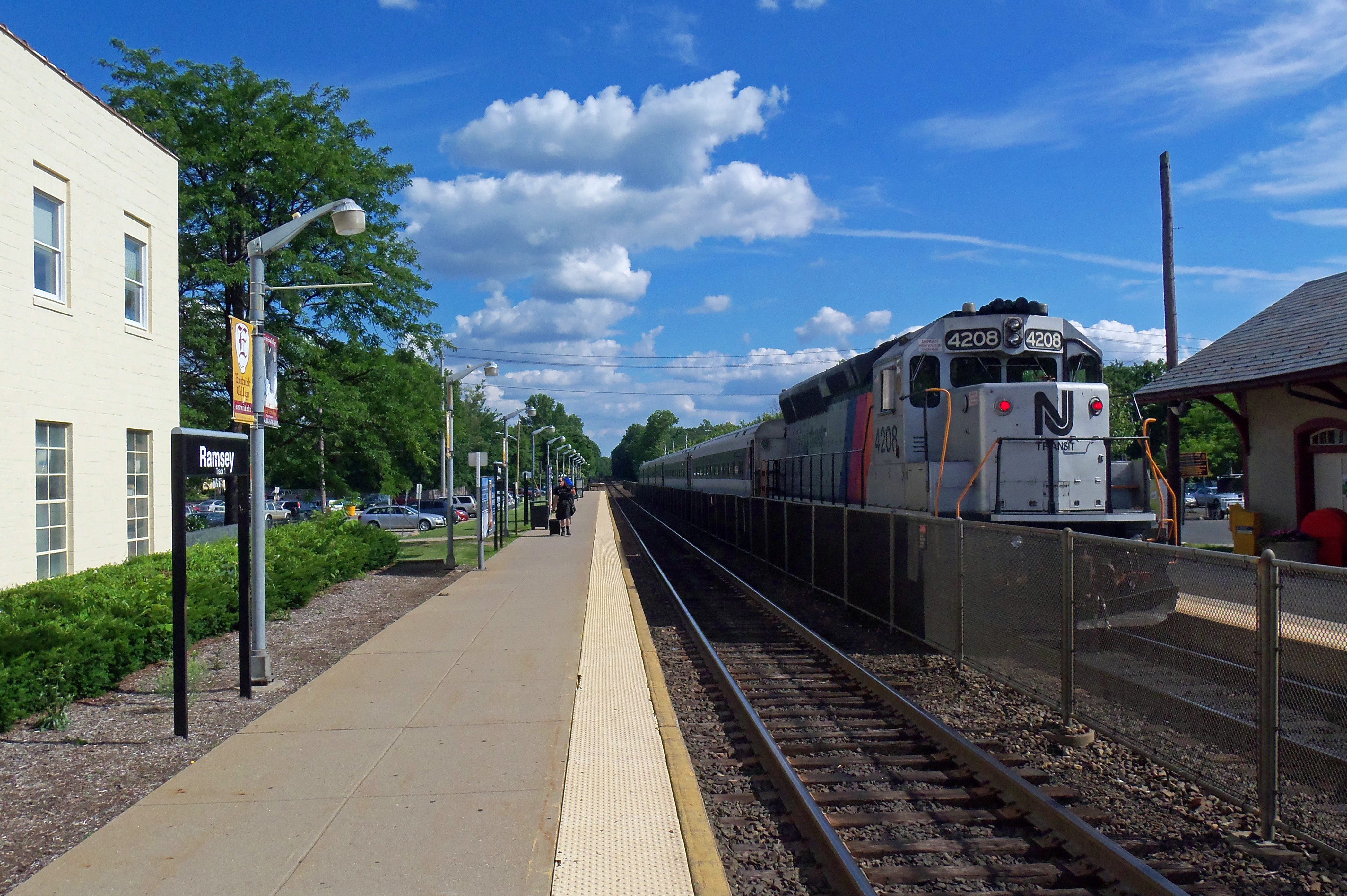 View south down tracks, with departing train, of NJ Transit Main Line from station at Ramsey, NJ, USA.